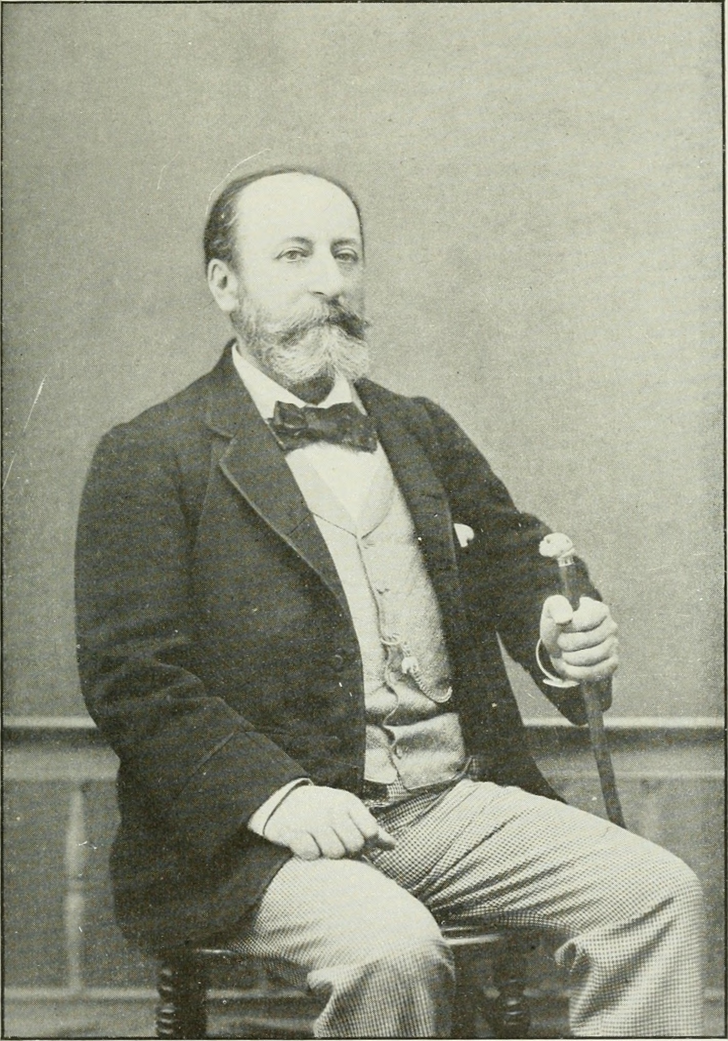 Saint-Saens auteur de Phryné, 1893 Title: Saint-Saëns Year: 1914 (1910s) Authors: Augé de Lassus, Lucien, 1846-1914 Subjects: Saint-Saëns, Camille, 1835-1921 Publisher: Paris C. Delagrave Text Appearing Before Image: m H\0 A 3ÎA TRES CHERE FEMME Text Appearing After Image: Saint-Saens auteur de Phryné (1893). l7. Oj. AVANT-PROPOS Ce livre est moins une histoire qu'une promenade. Tout serait accompli de son rêve et de son ambition s'il était accepté ainsi qu'un ami, un compagnon fidèle et deplaisante humeur. L'histoire d'un homme bien vivant et qui chaque soir ajoute un soir nouveau, une œuvre nouvelle, à l'entassement des jours longuement vécus, des œuvres glorieusement moissonnées, cette histoire est impossible à écrire. L'édificene cesse de grandir, et l'histoire veut être un couronnement. C'est donc un Saint- •8 AVANT-PROPOS Saëns inachevé qui va s'échapper de ces pages. Elles s'arrêteront, non pas sur un point de rigoureuse terminaison, mais sur une ligne de points suspensifs, tout à la fois d'incertitude, d'ignorance, de radieuse exclamation; et l'espérance jolie sollicitera des pages nouvelles. Un auteur et son œuvre, surtout au domaine de si vibrante intimité que révèle la musique, se pénètrent si profondément qu'on ne saurait les détacher l'un